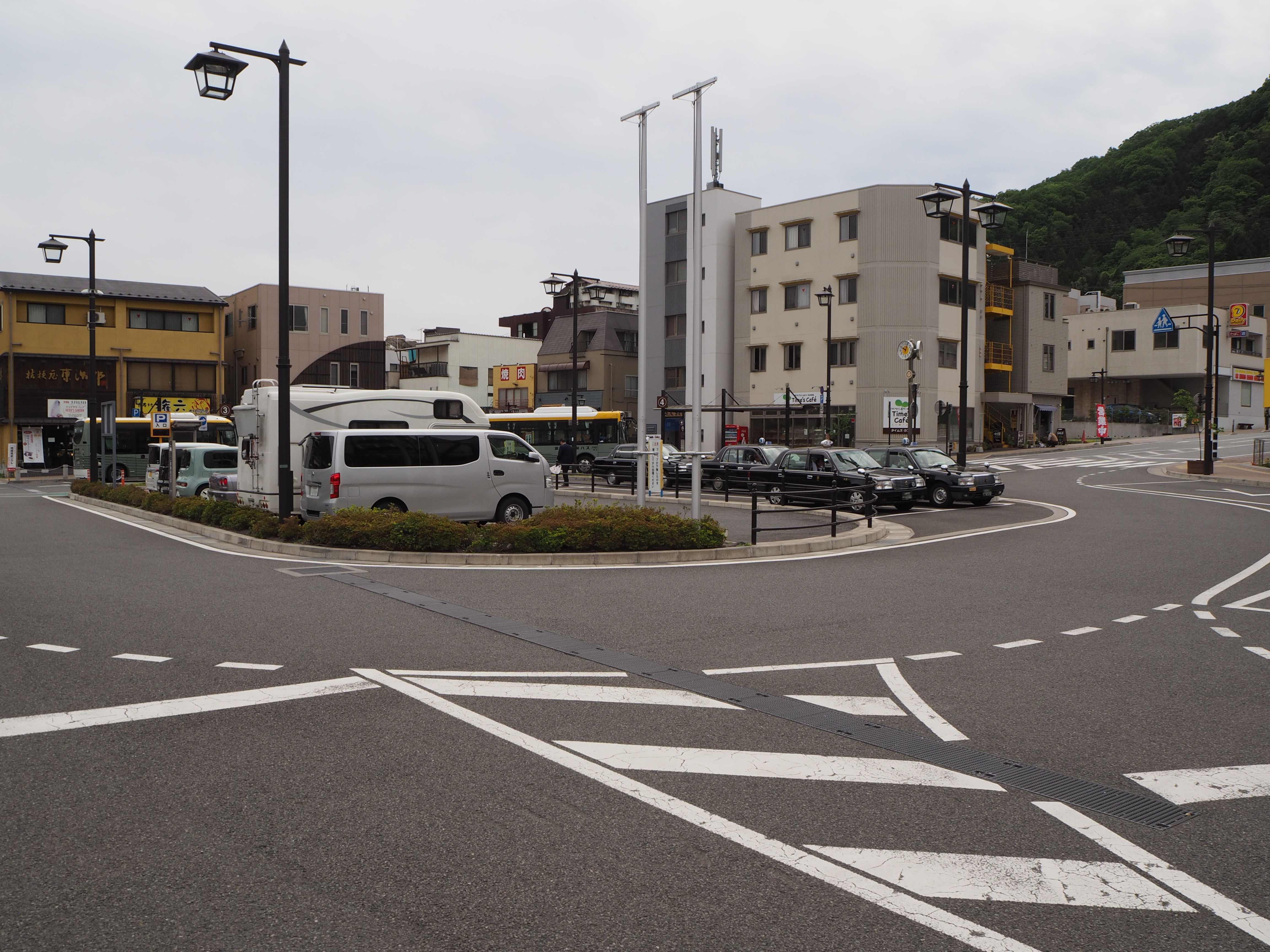 Station square of Ōtsuki Station